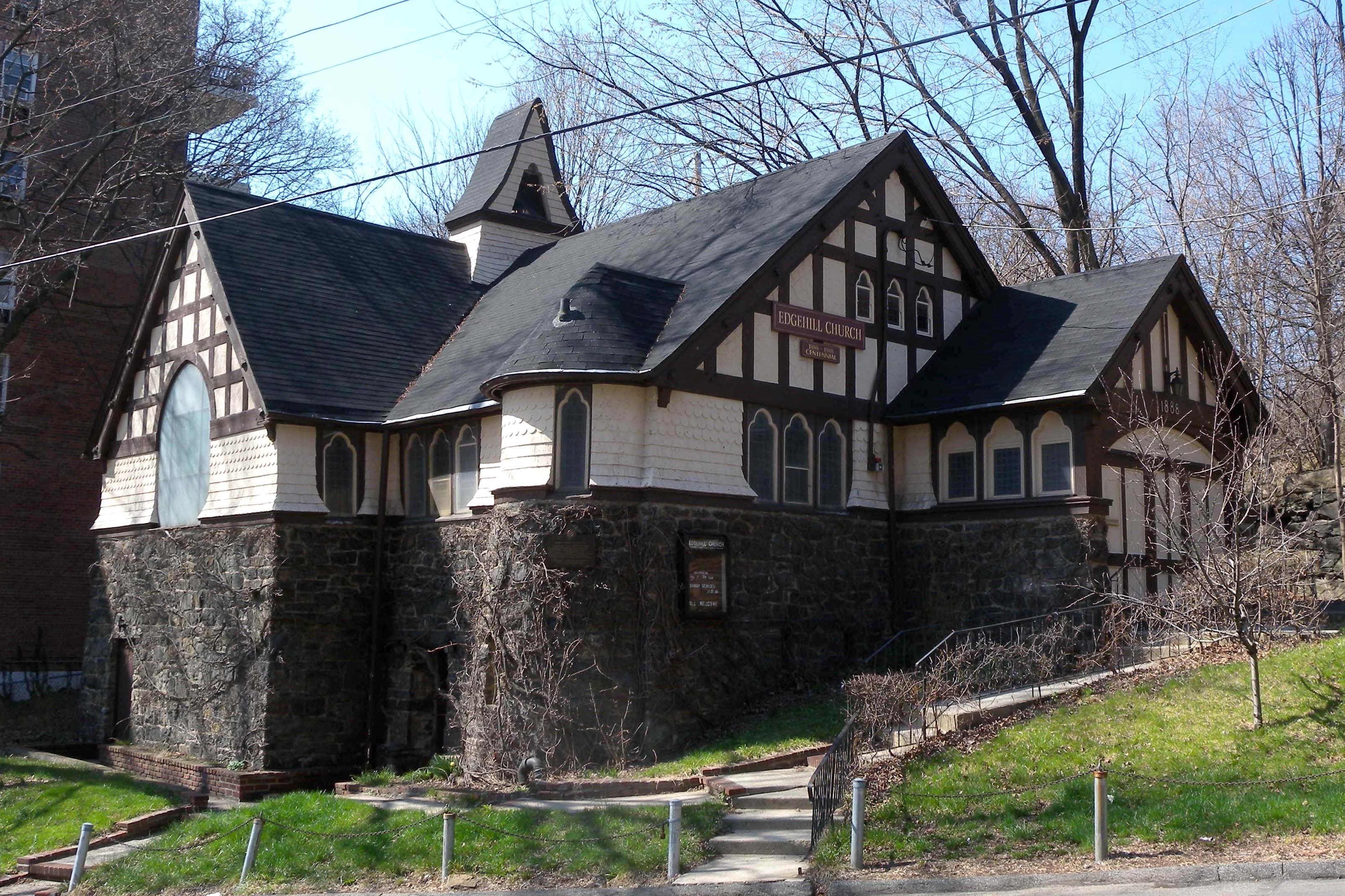 Looking northwest at Edgehill Church at Spuyten Duyvil on a sunny midday.